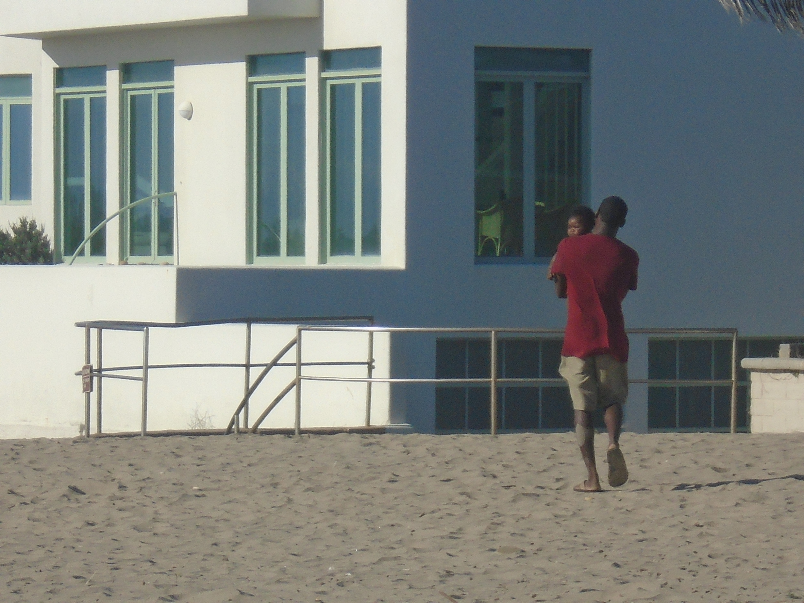 Editorial Photograph - Ventura, CA- Featured Article Gregory Benjamin: Where's The Funny?